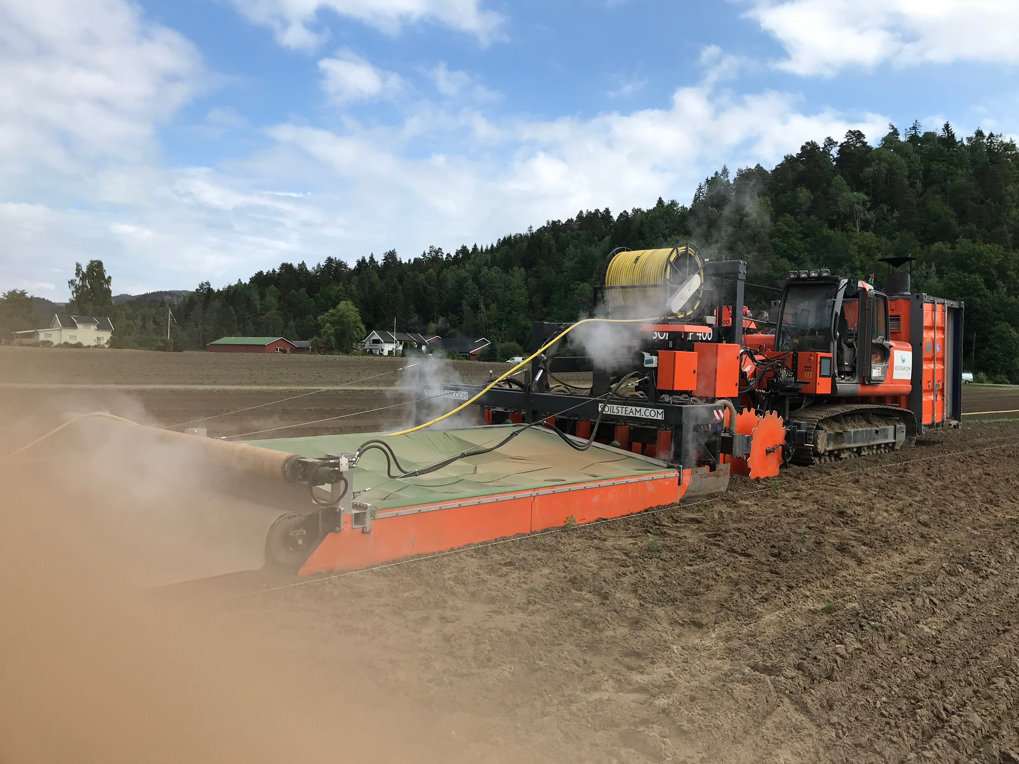 The first mobile deep soil steamer in the world. Demonstrated and testet in Germany and Norway in 2018 and 2019. The first commercial machine from Soil Steam international AS will be on the market in 2021.